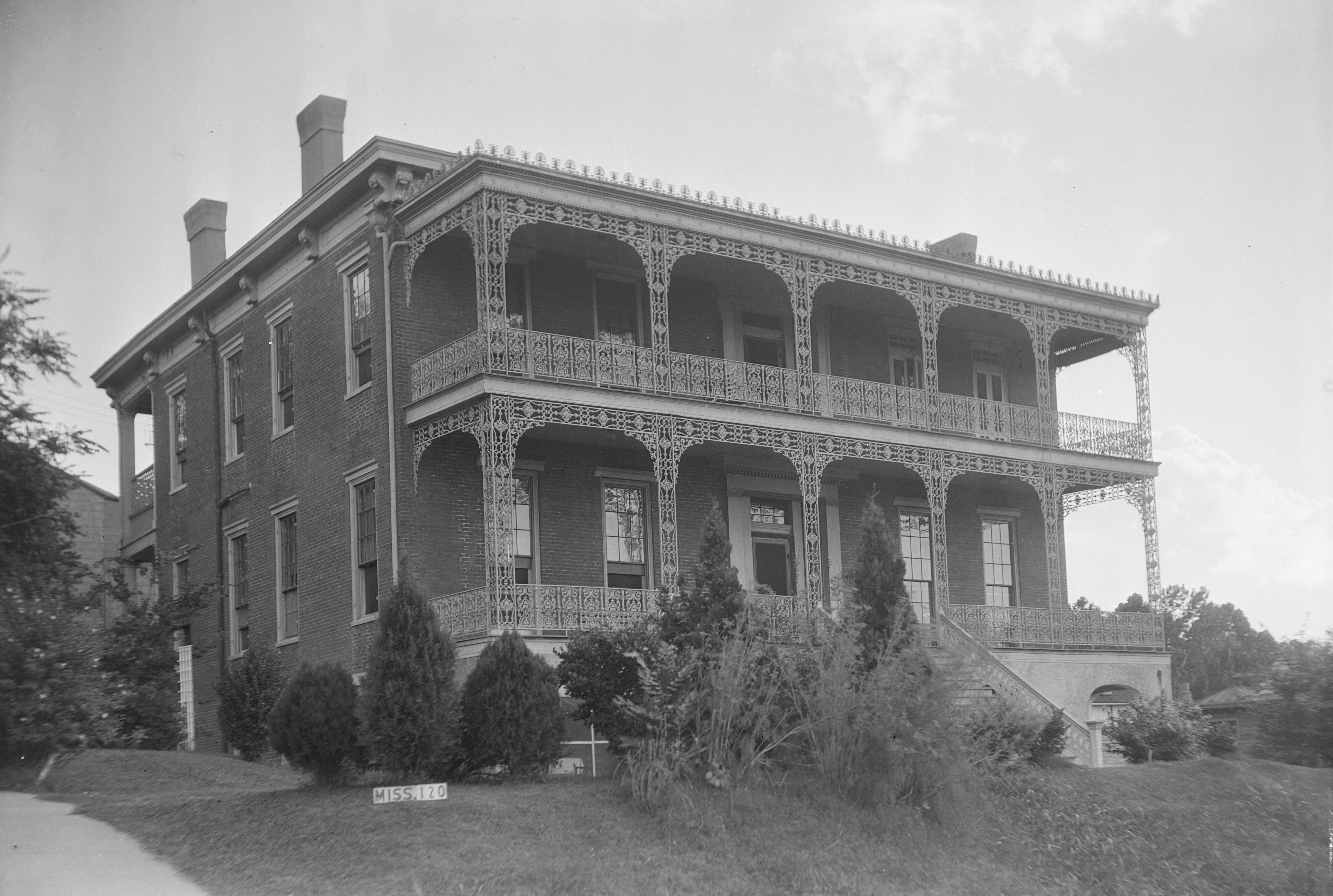 Front of the Duff Green House, located at 806 Locust Street in Vicksburg, Mississippi, United States. Built in 1861, it is listed on the National Register of Historic Places.